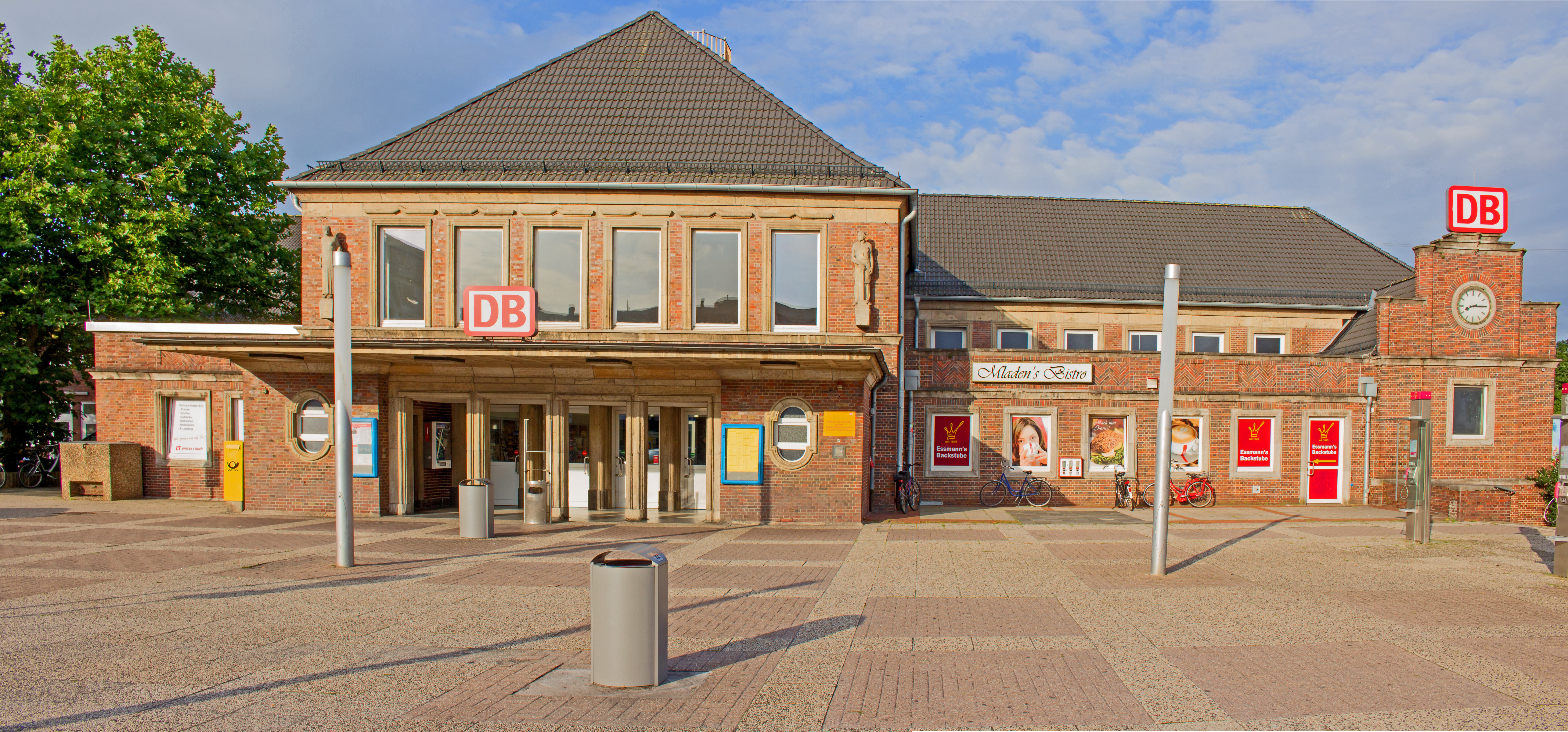 station building and main entrance of Rheine train station - Rheine, North Rhine-Westphalia, Germany